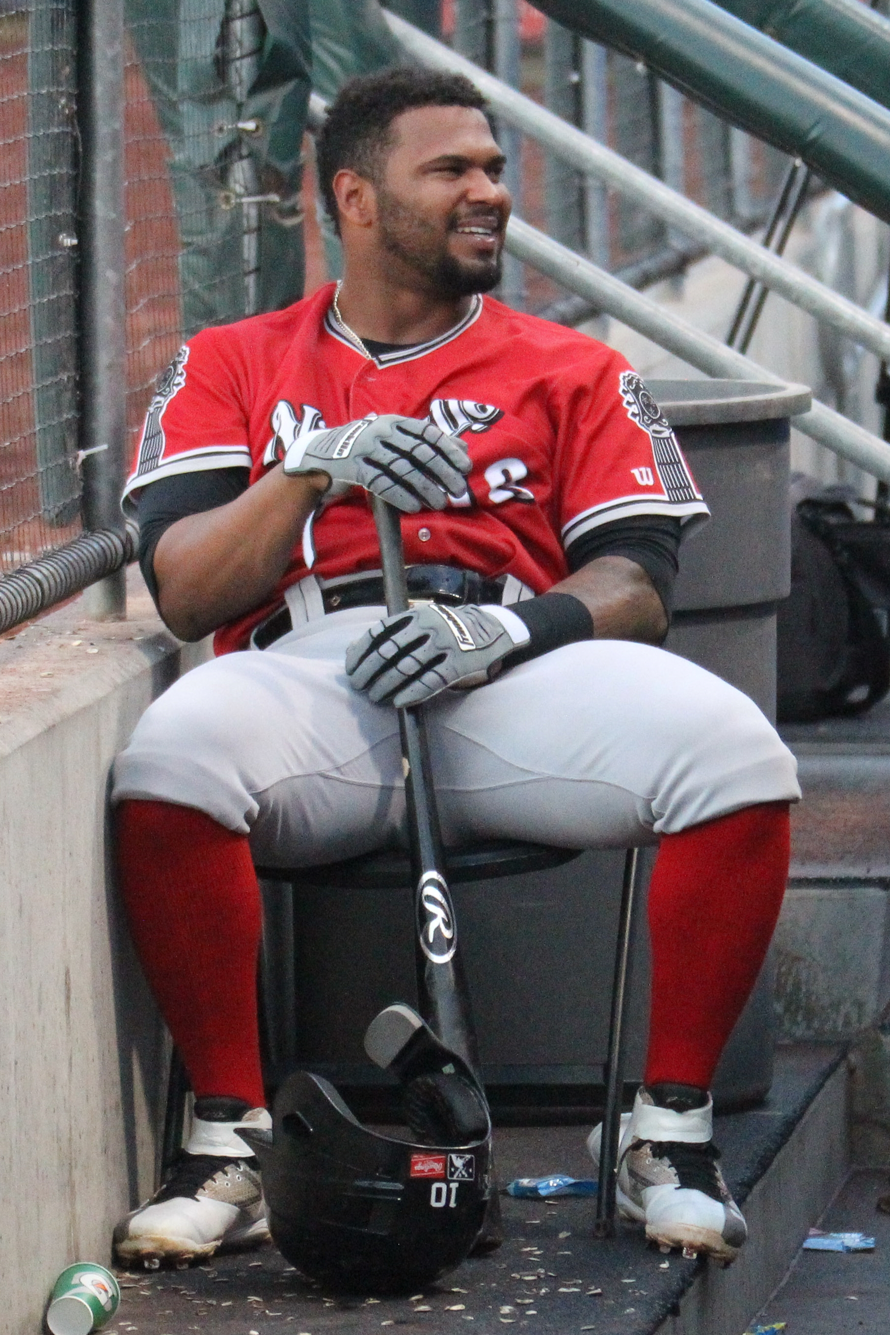 Anthony Garcia of the Nashville Sounds Minda Haas Kuhlmann | 2018 USAGE INSTRUCTIONS: You are welcome to share or publish to your own site or social media account, but you MUST credit me, Minda Haas Kuhlmann. Twitter: @minda33. Instagram: minda.haas